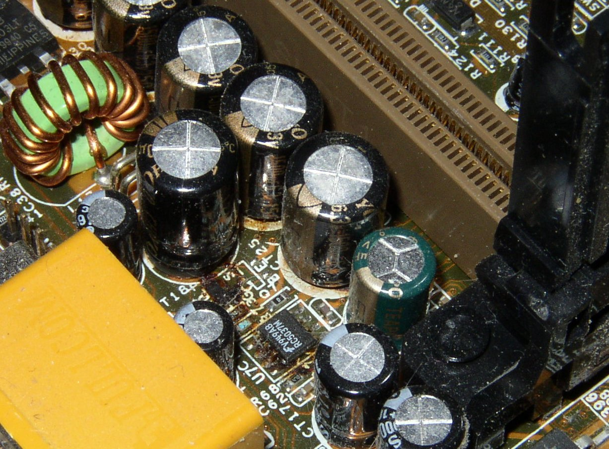 Failed Choyo brand capacitors which have leaked onto the motherboard.